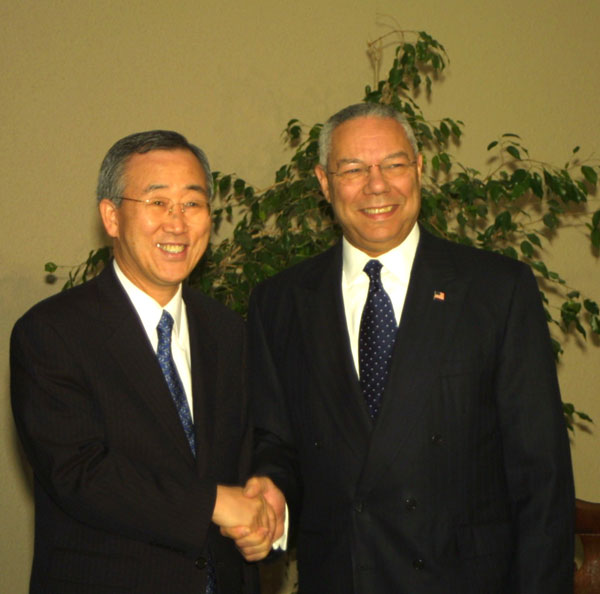 Secretary Colin Powell shakes hands with Foreign Minister of the Republic of Korea, Ban Ki-moon. Secretary Powell attended the APEC Ministerial Meetings (Nov. 17-18) and held bilateral meetings with counterparts while in Chile. State Department Photo.